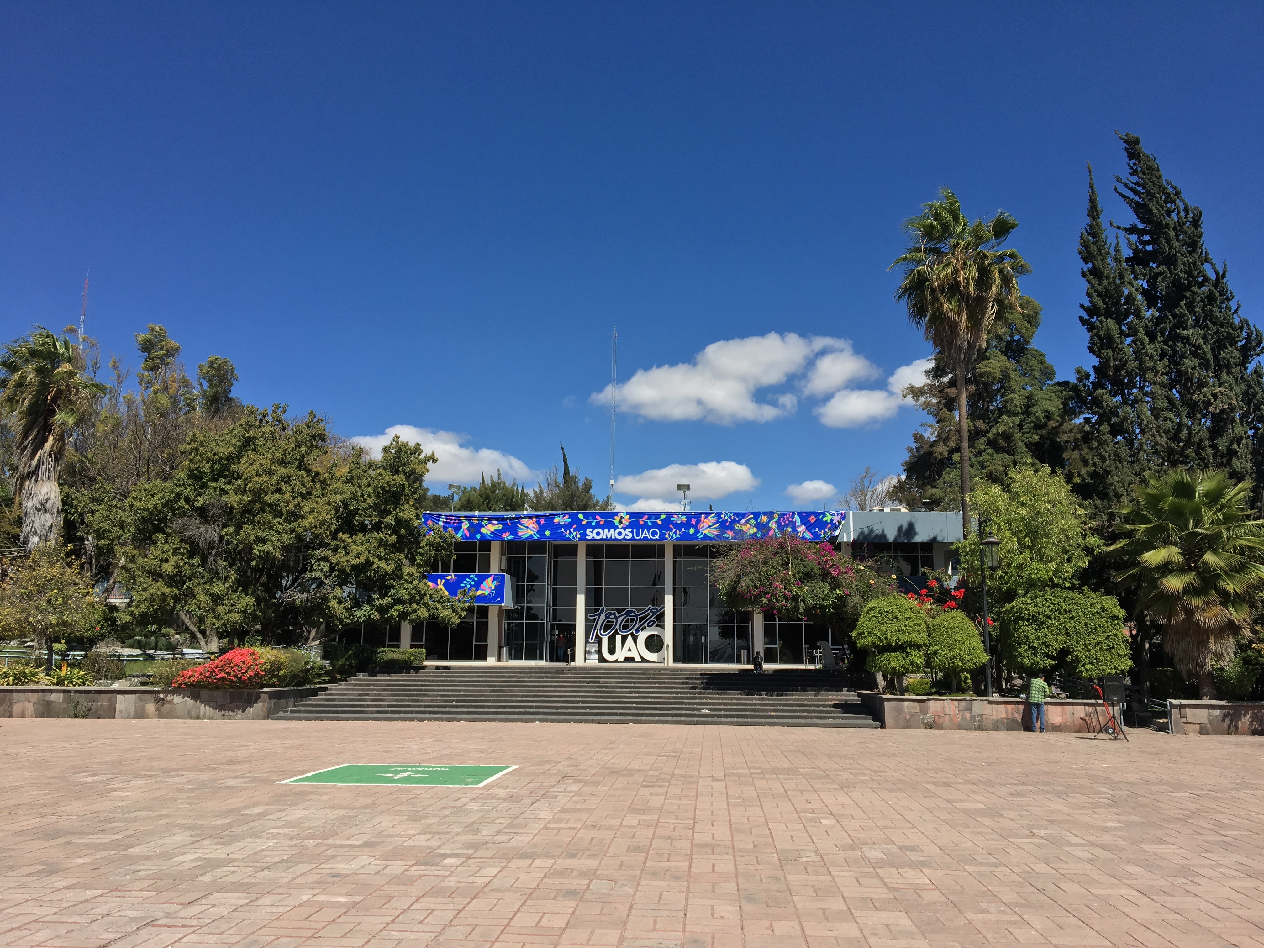 Photo taken February 9, 2019